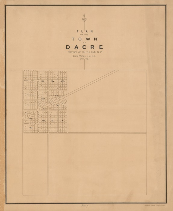 Plan of the town of Dacre, province of Southland, N.Z. [electronic resource] / Theophilus Heale, chief surveyor.